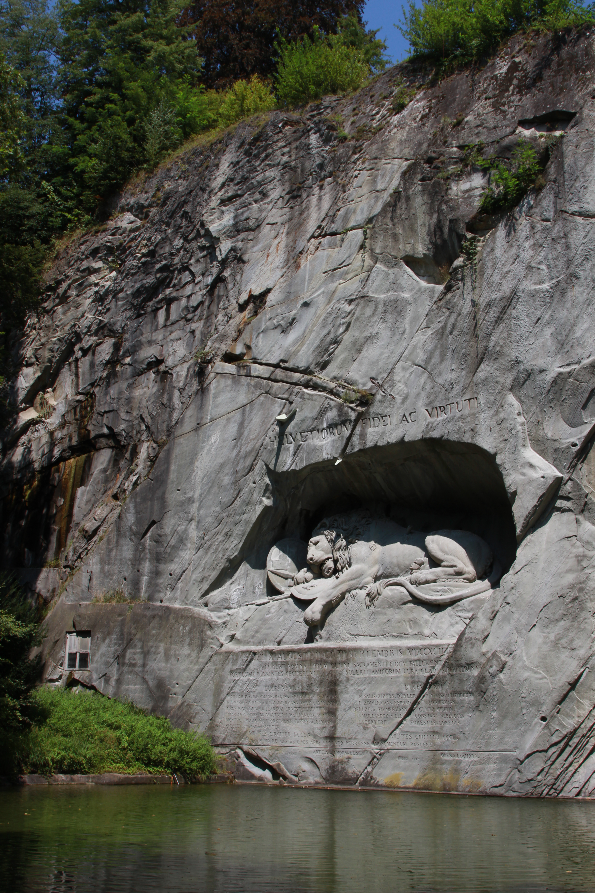 Lion of Lucerne is in Luzern (switzerland). This is in memories of Swiss Guards who were massacred in 1792 during the French Revolution